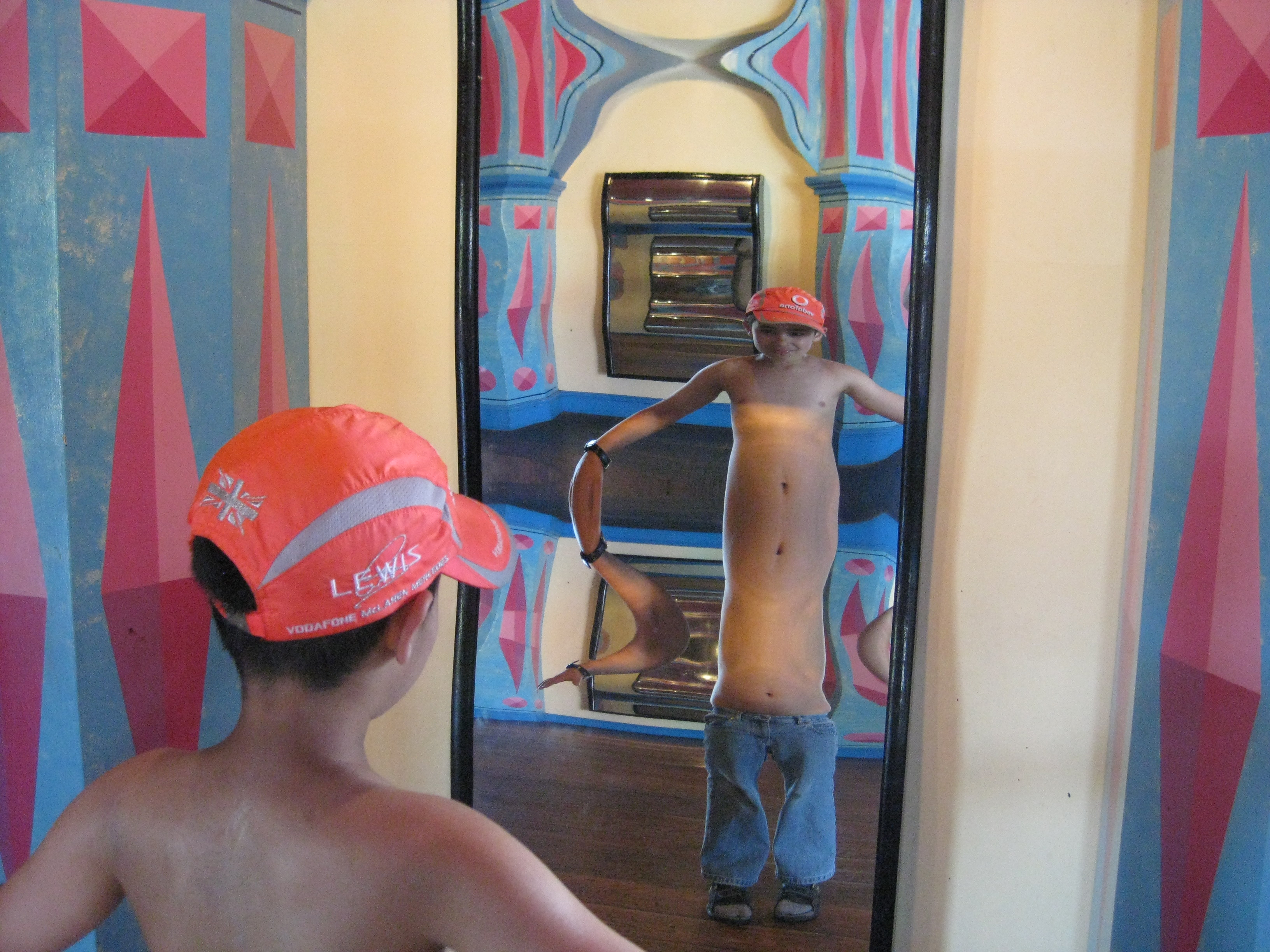 Image of a boy in a distorting mirror.